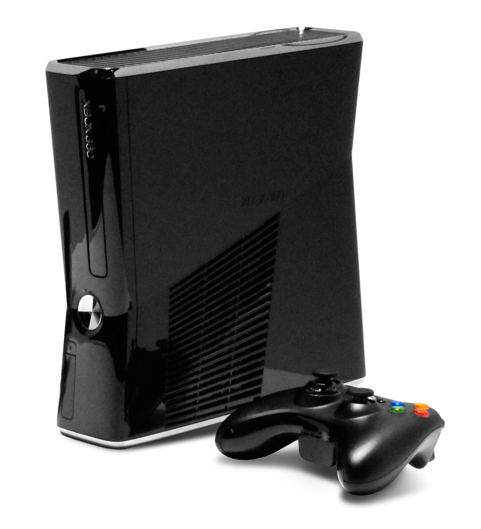 Xbox 360 250 GB as shown at the 2010 Electronic Entertainment Expo